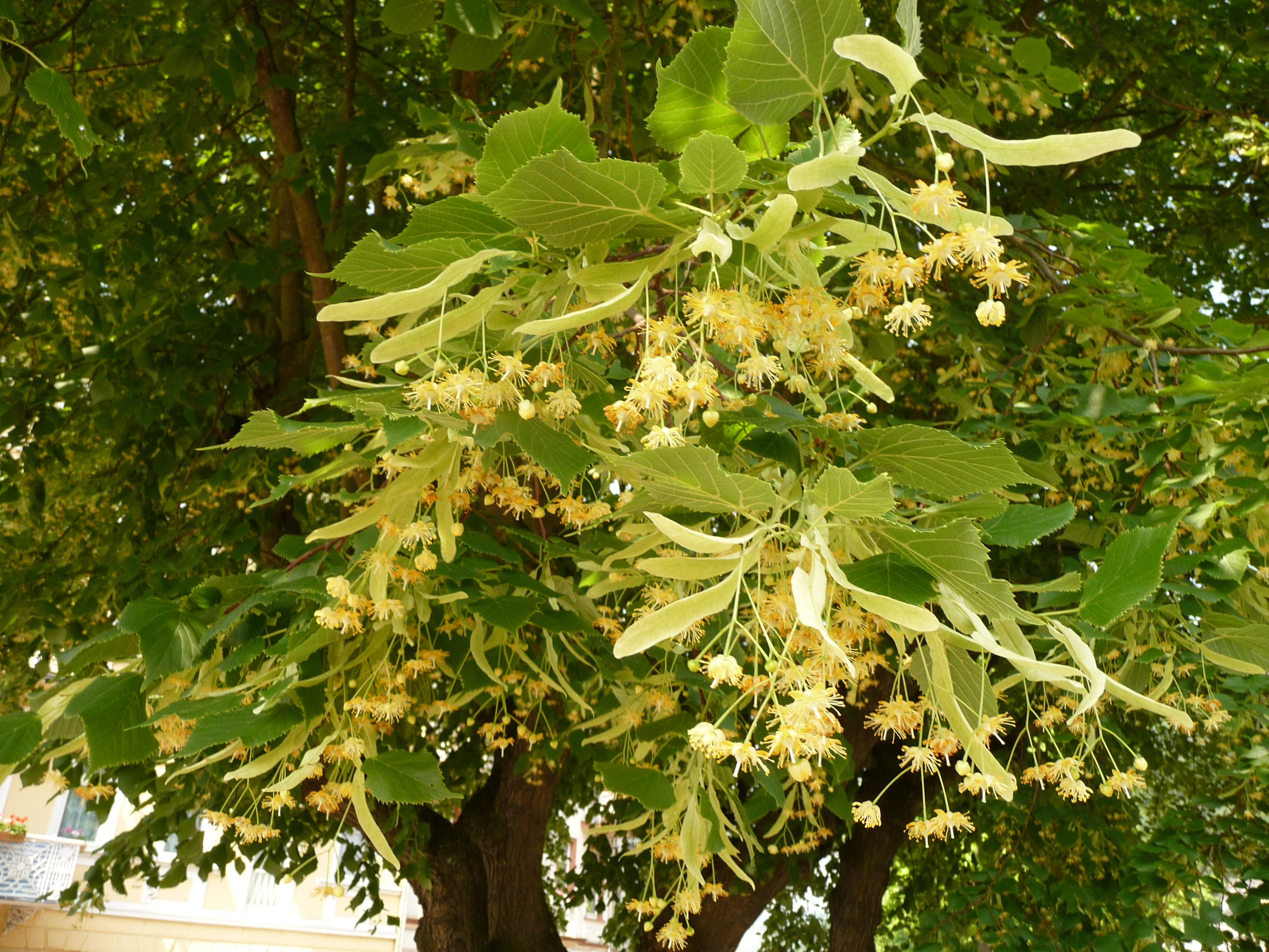 Tilis platyphyllos